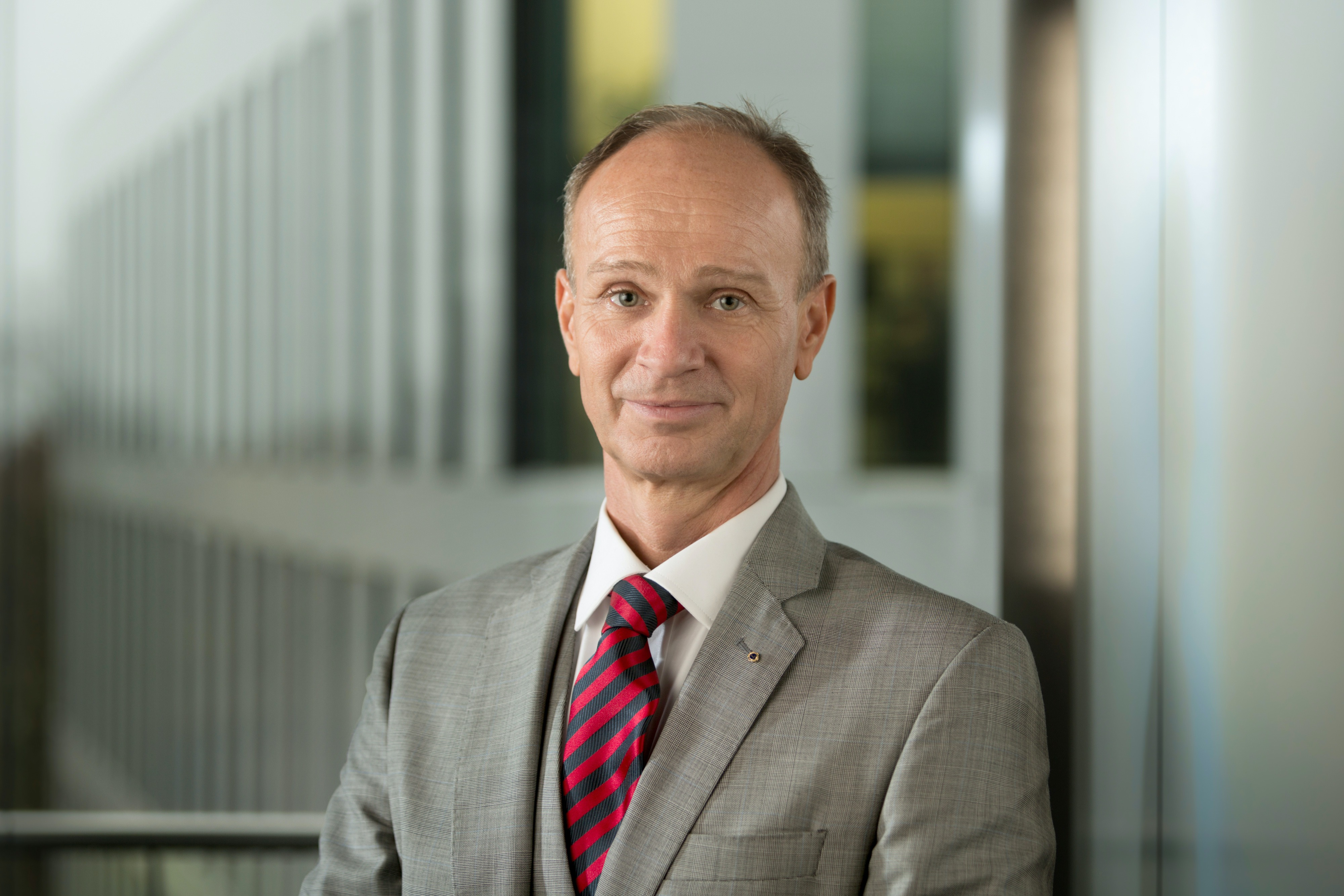 Wolfgang Langhoff, Chief Executive Officer of BP Europe